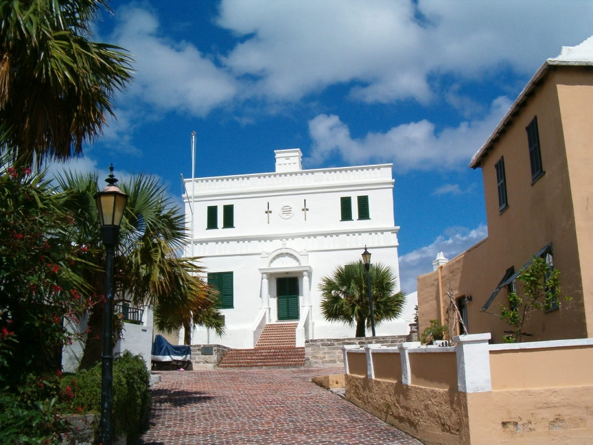 The State House, in St. George's, Bermuda. This building housed the Parliament of Bermuda, the House of Assembly, from 1620 to 1815.